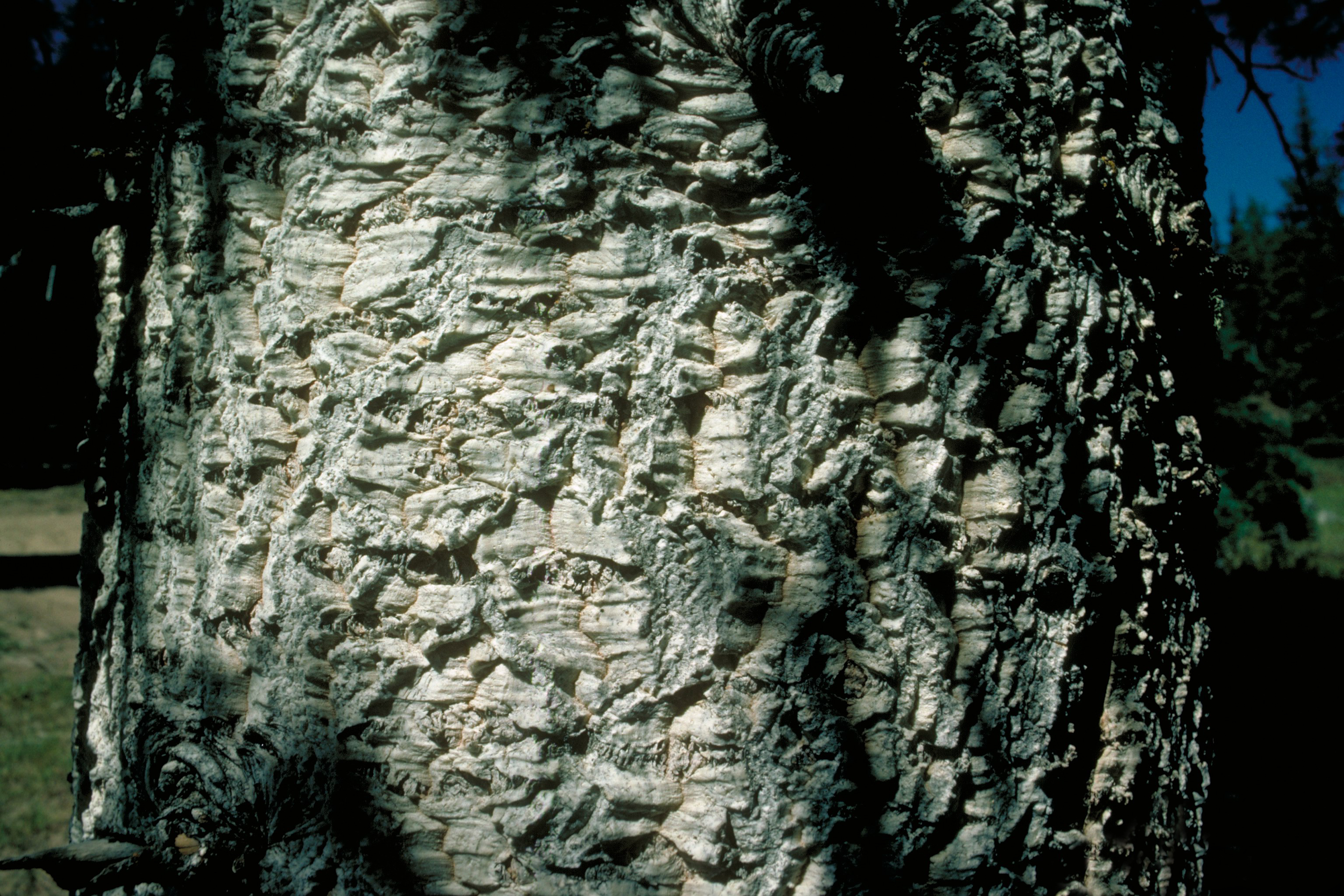 Abies lasiocarpa subsp. arizonica bark